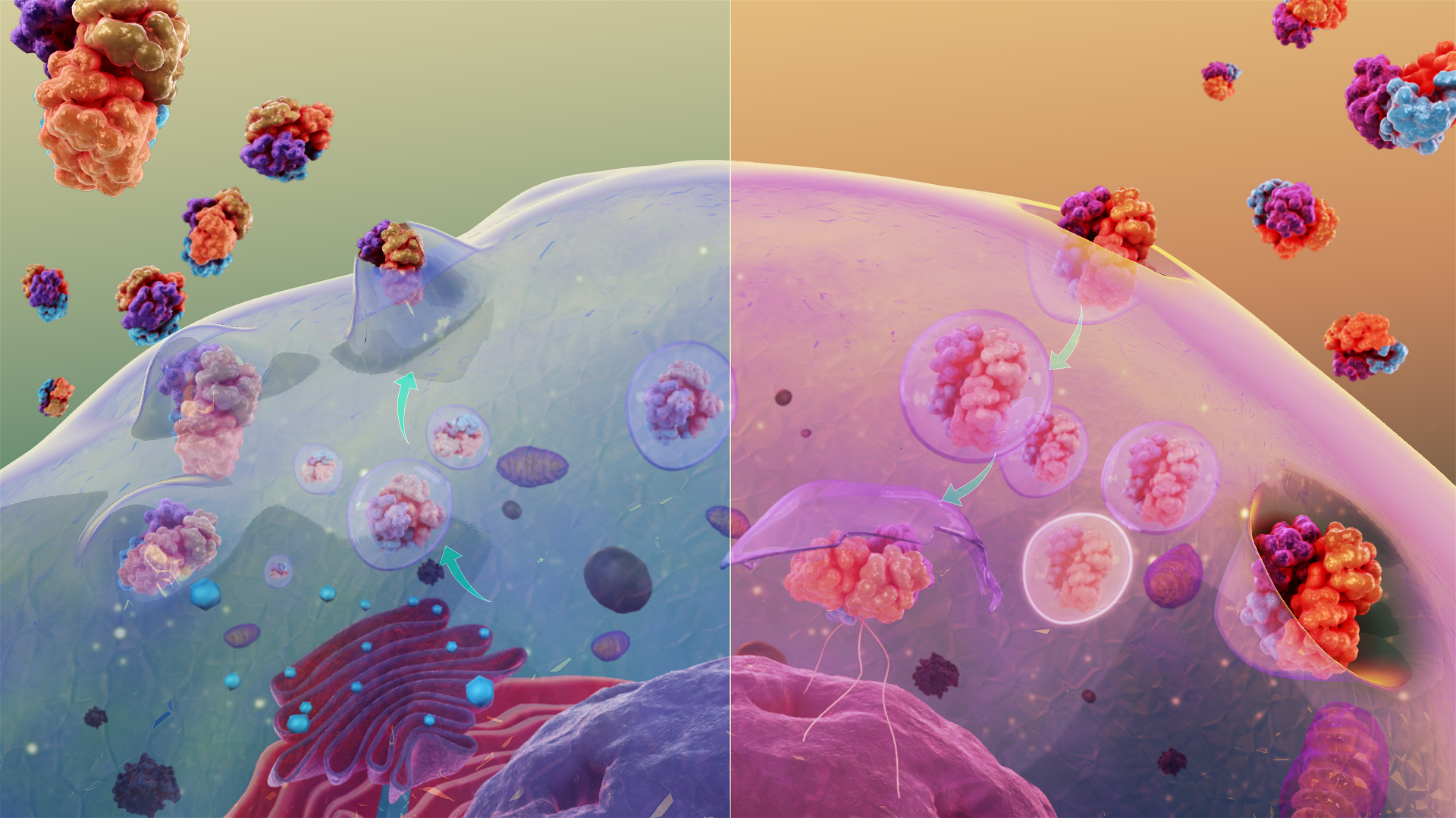 The left image shows exocytosis where the cell contents are released to the exterior, while the right image shows endocytosis in which the cell takes in matter by invagination of its membrane.